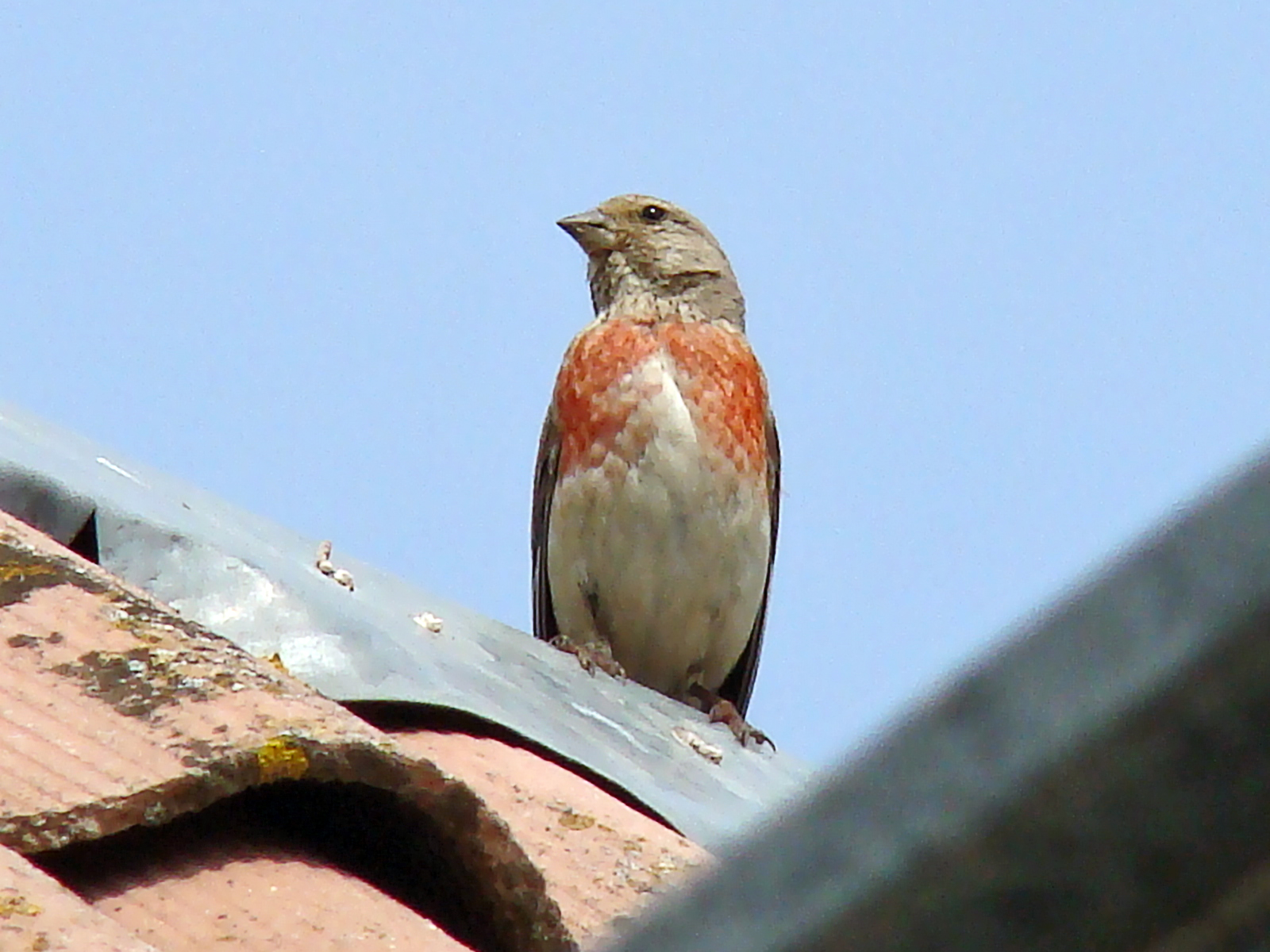 Photo of the Linnet ( Carduelis cannabina ) in Šiauliai, Raizgiai, Lithuania.